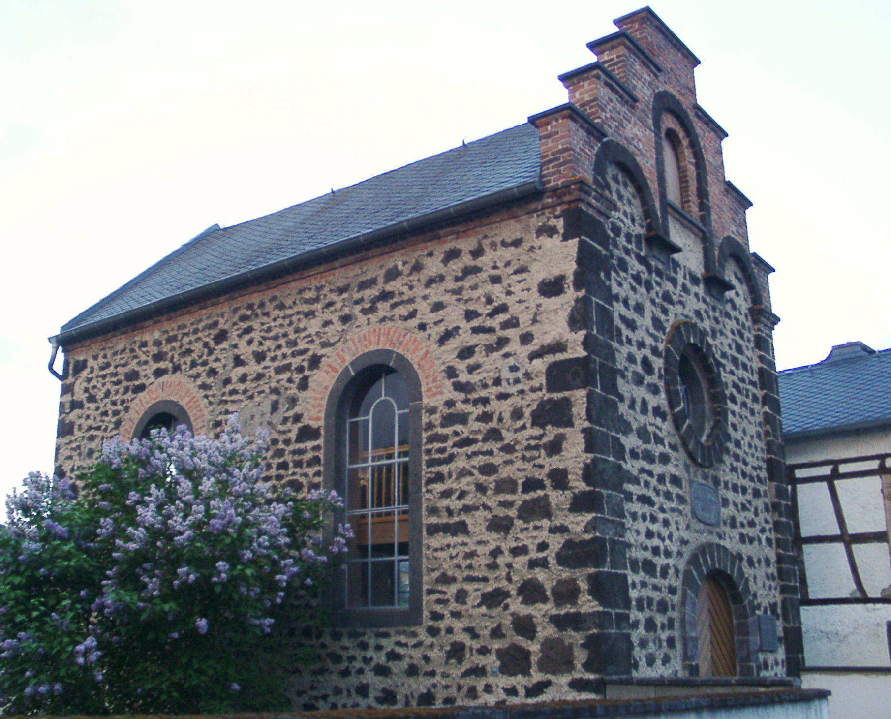 Synagoge Saffig, Rhineland-Palatinate, Germany